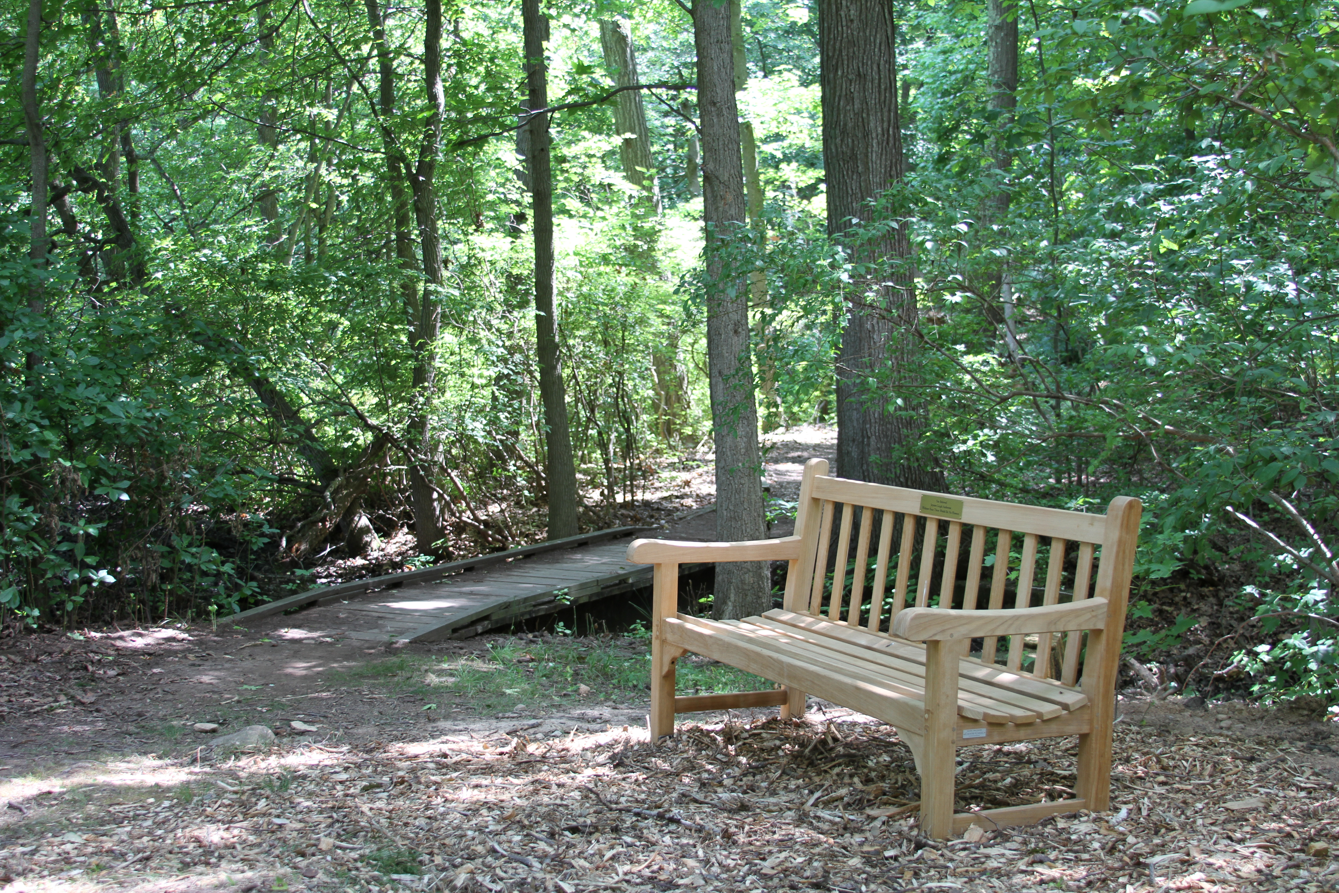 Hike, run, explore, rest and renew along the Greenbelt's 35-mile trail system. Photo: Dorothy Reilly